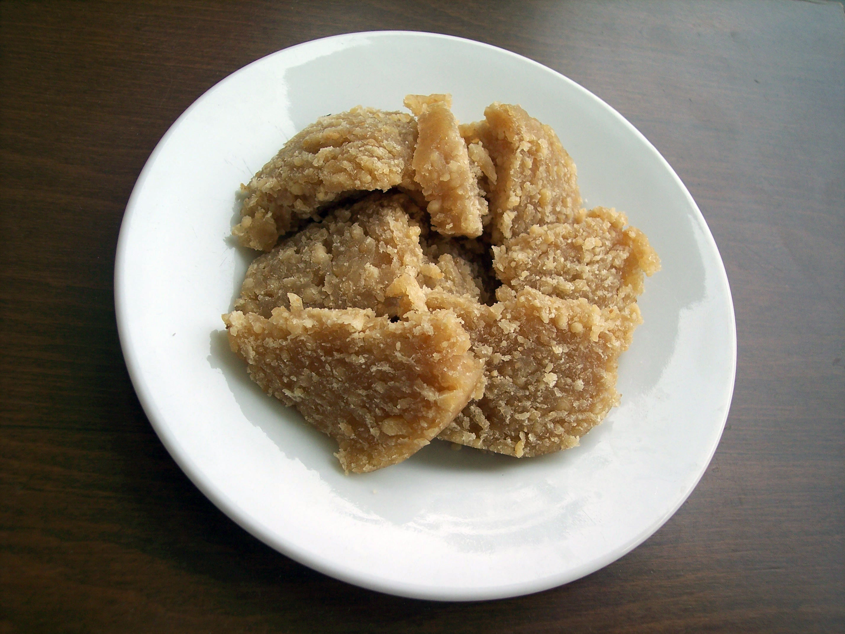 Un Helvası, "Flour Halva". A traditional Turkish dessert.